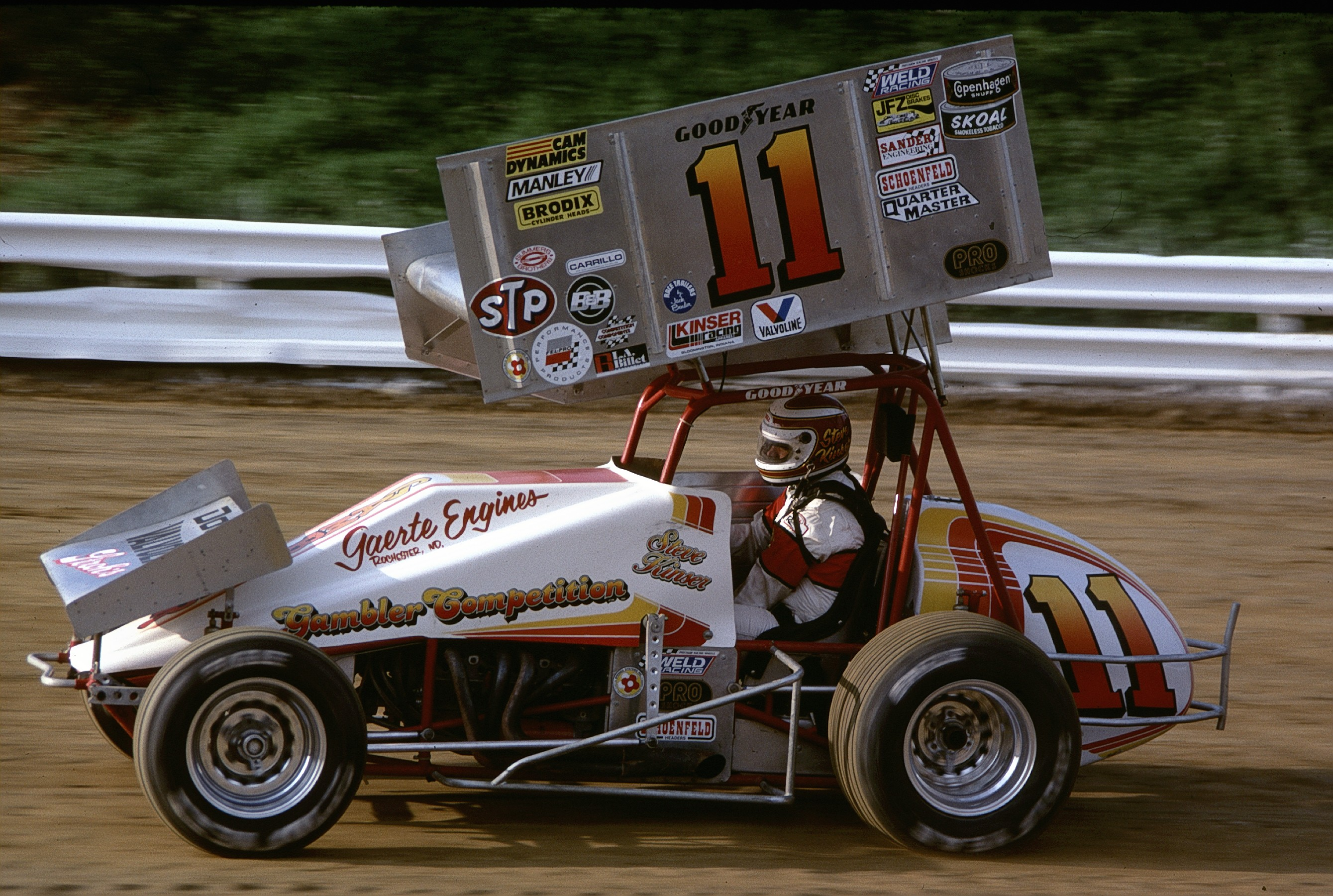 1986 World of Outlaws national champion Steve Kinser's sprint car at Williams Grove in 1986